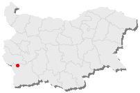 Bulgaria map with a red dot for Blagoevgrad, © Petko Yotov 2004, 2005 or 2006. Coordinates: North: 42° 1', East 23° 6', and approx. altitude 561 metres.